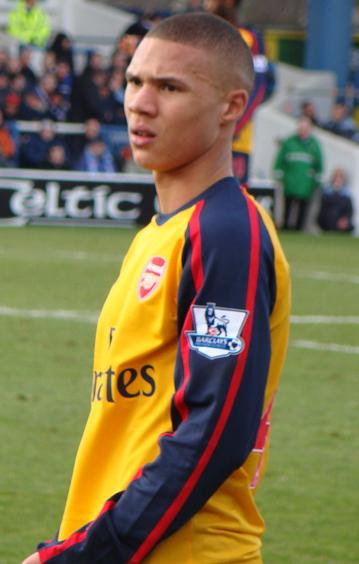 Photo of footballer Kieran Gibbs